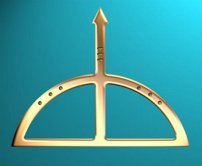 Ofá, Orisha Oxossi symbol.